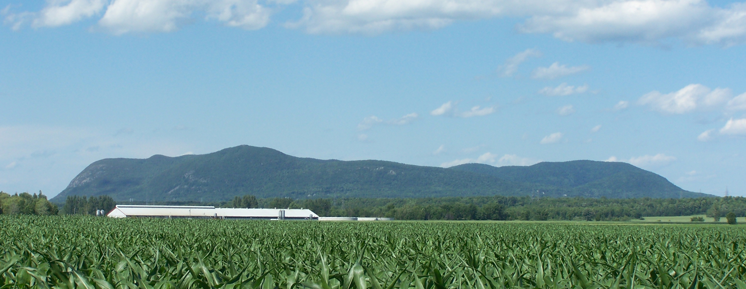 Mont Saint-Hilaire, Quebec, seen from the south, showing the various summits.